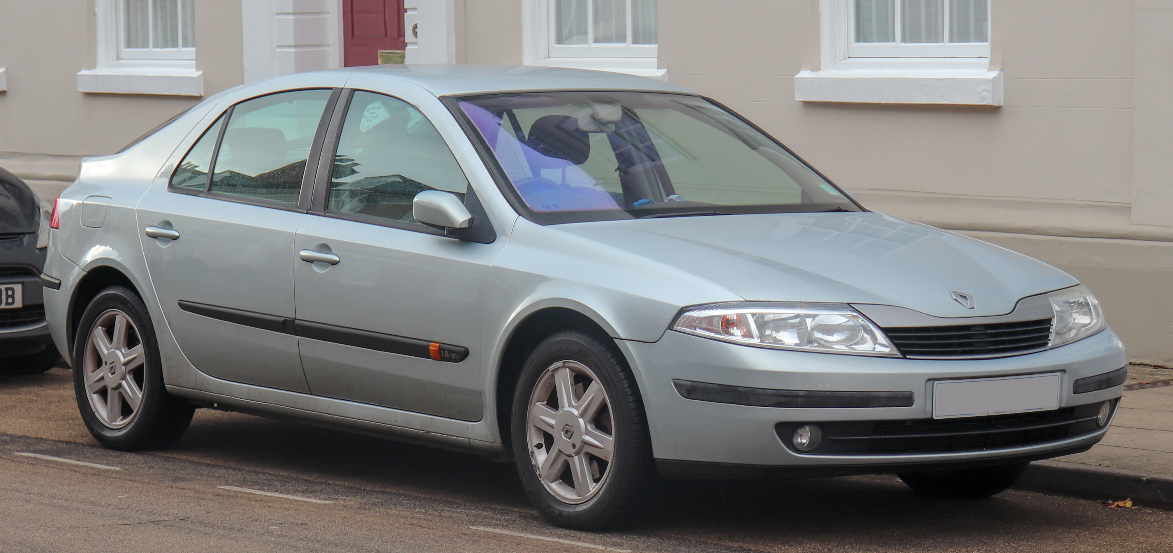 2003 Renault Laguna 1.8 Front Taken in Warwick